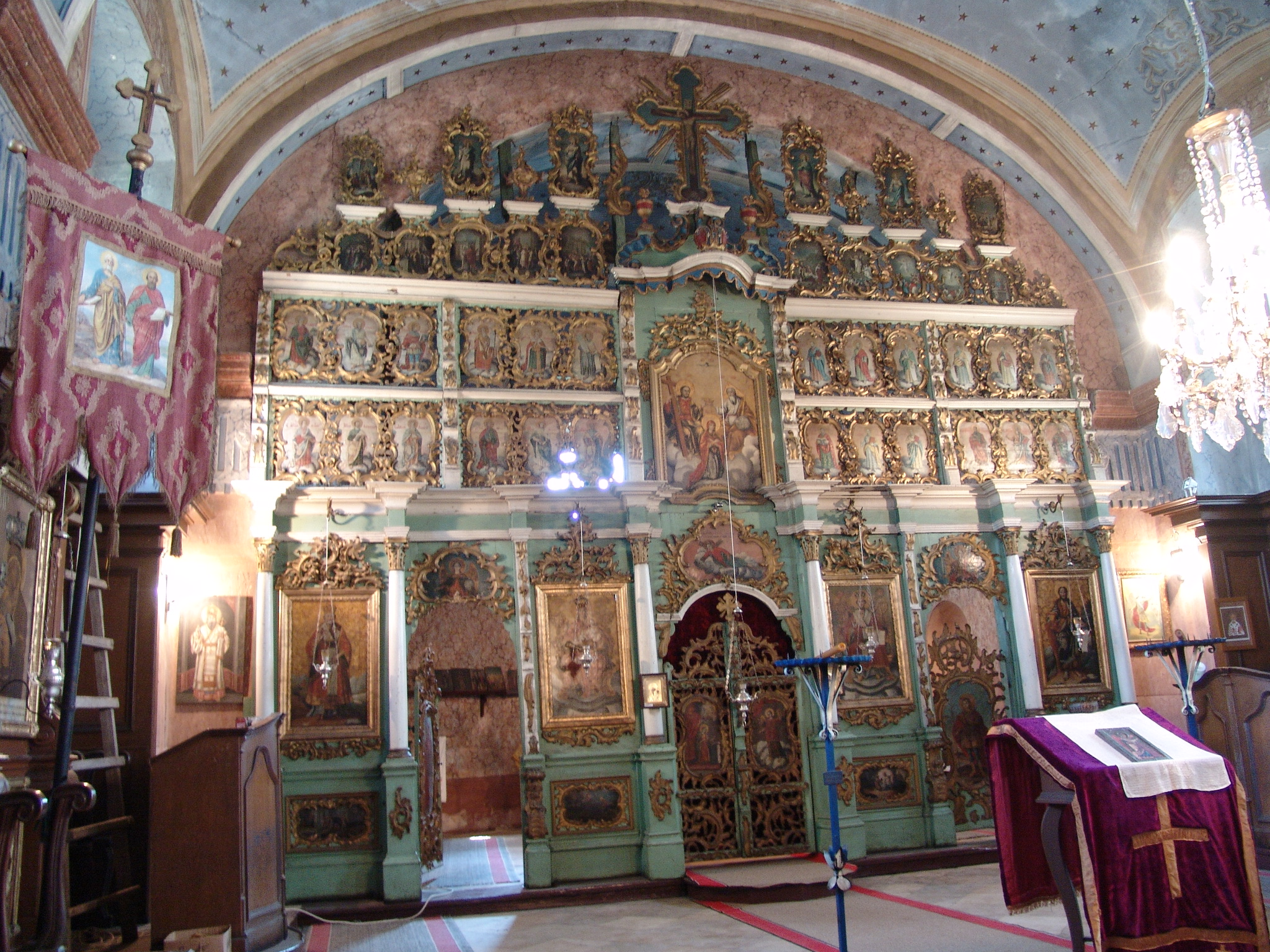 Serbian Orthodox church of Saint Archangel Gabriel in Bočar - iconostasis